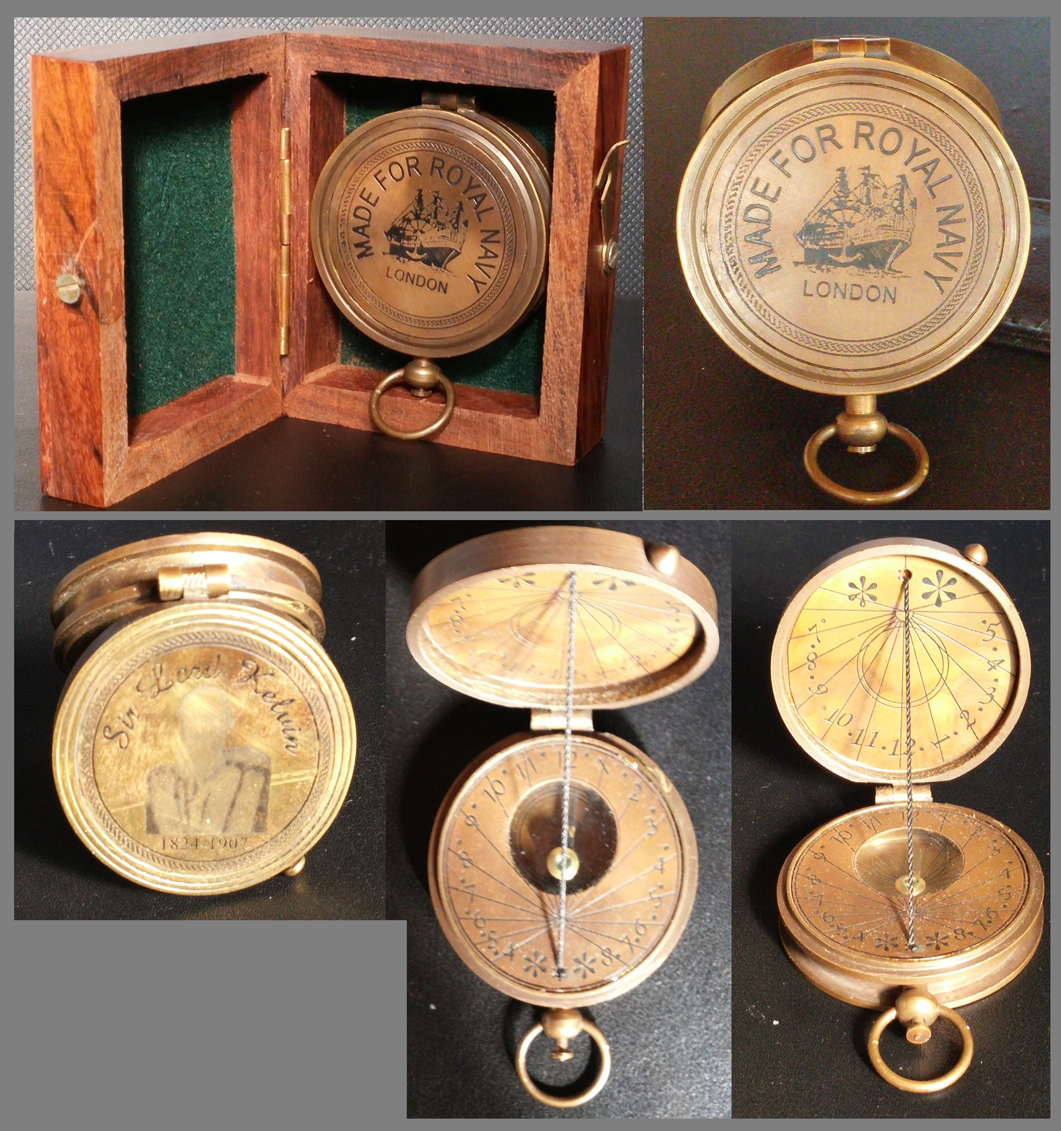 Sir Lord Kelvin Mariner's Compass with Sun Dial